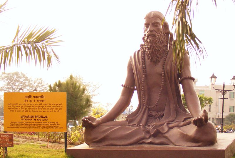 Modern art: Patanjali Statue In Patanjali Yog Peeth, Haridwar